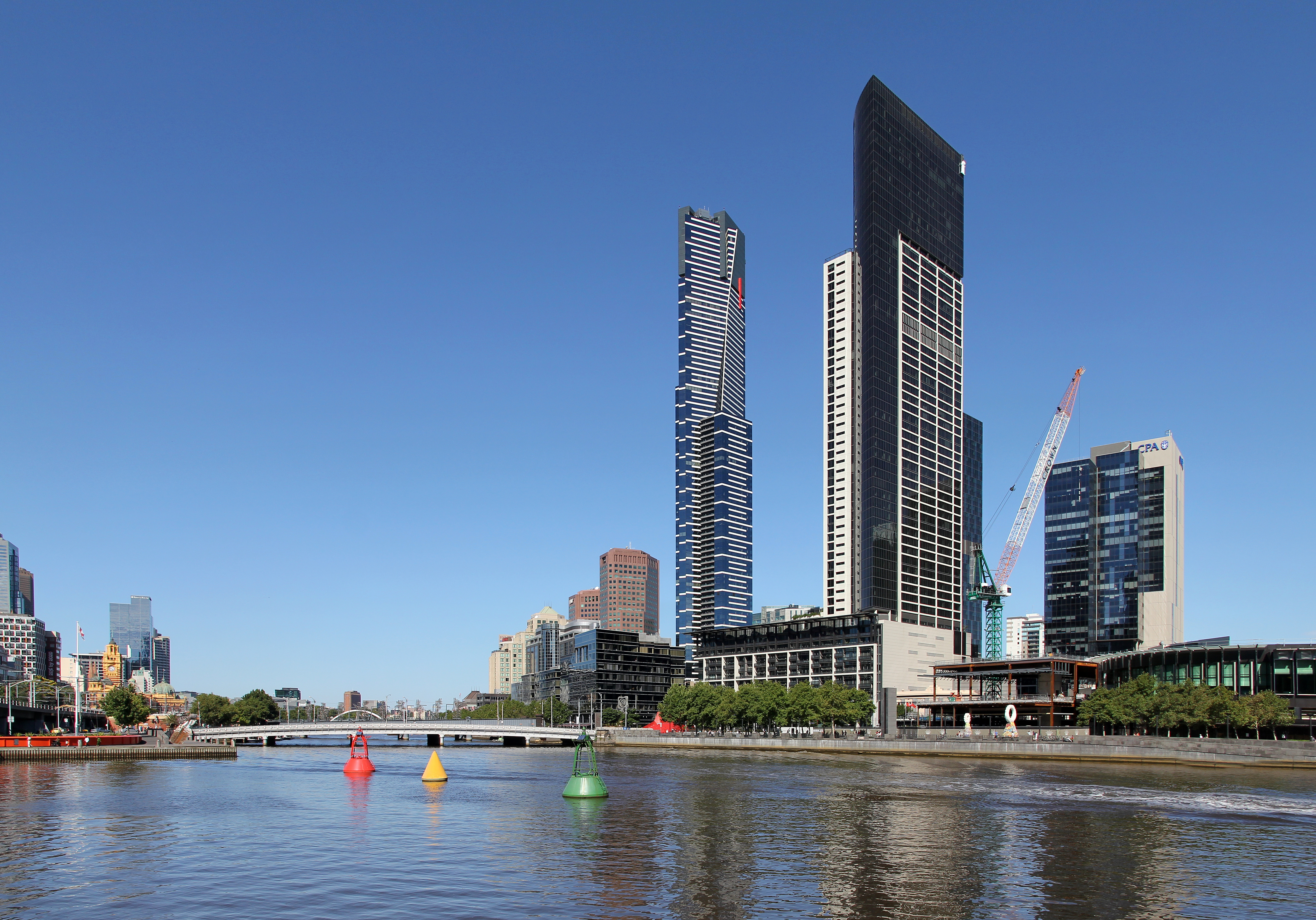 Eureka Tower in Southbank